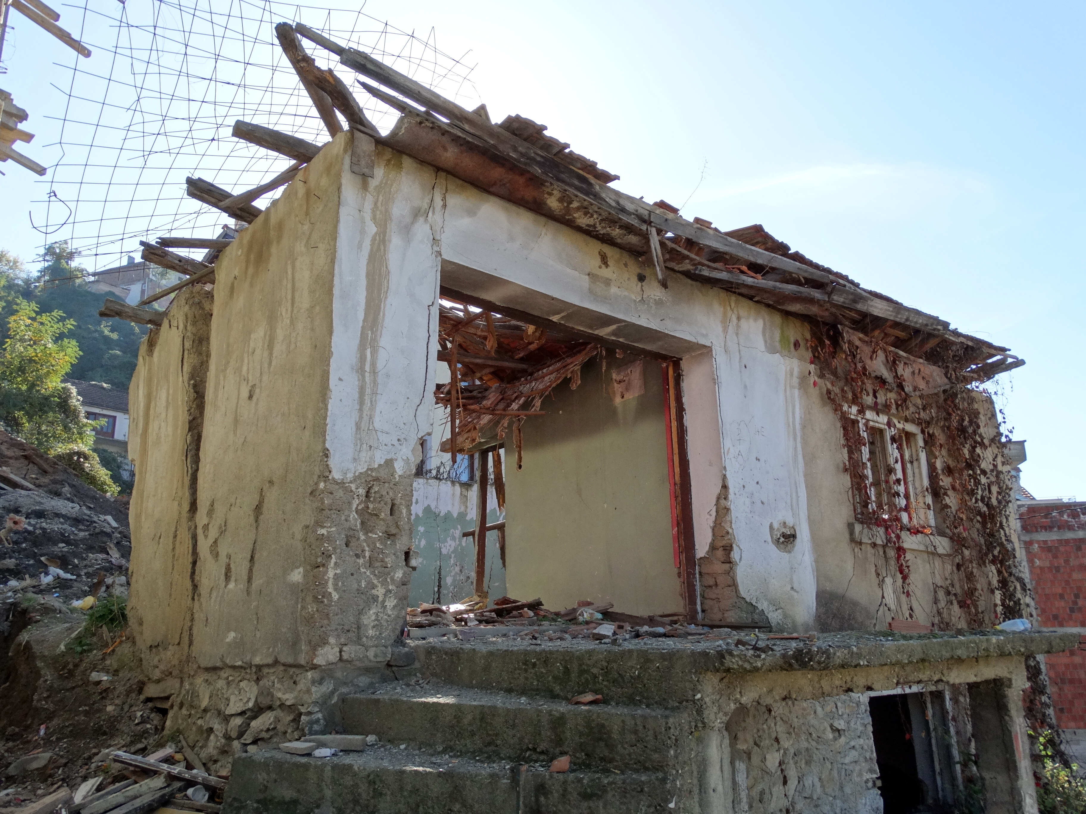 Facade of Serb House Destroyed in 2004 Pogrom - Prizren - Kosovo - 02